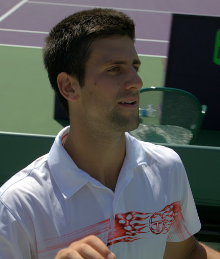 Djokovic at the 2010 Miami Masters